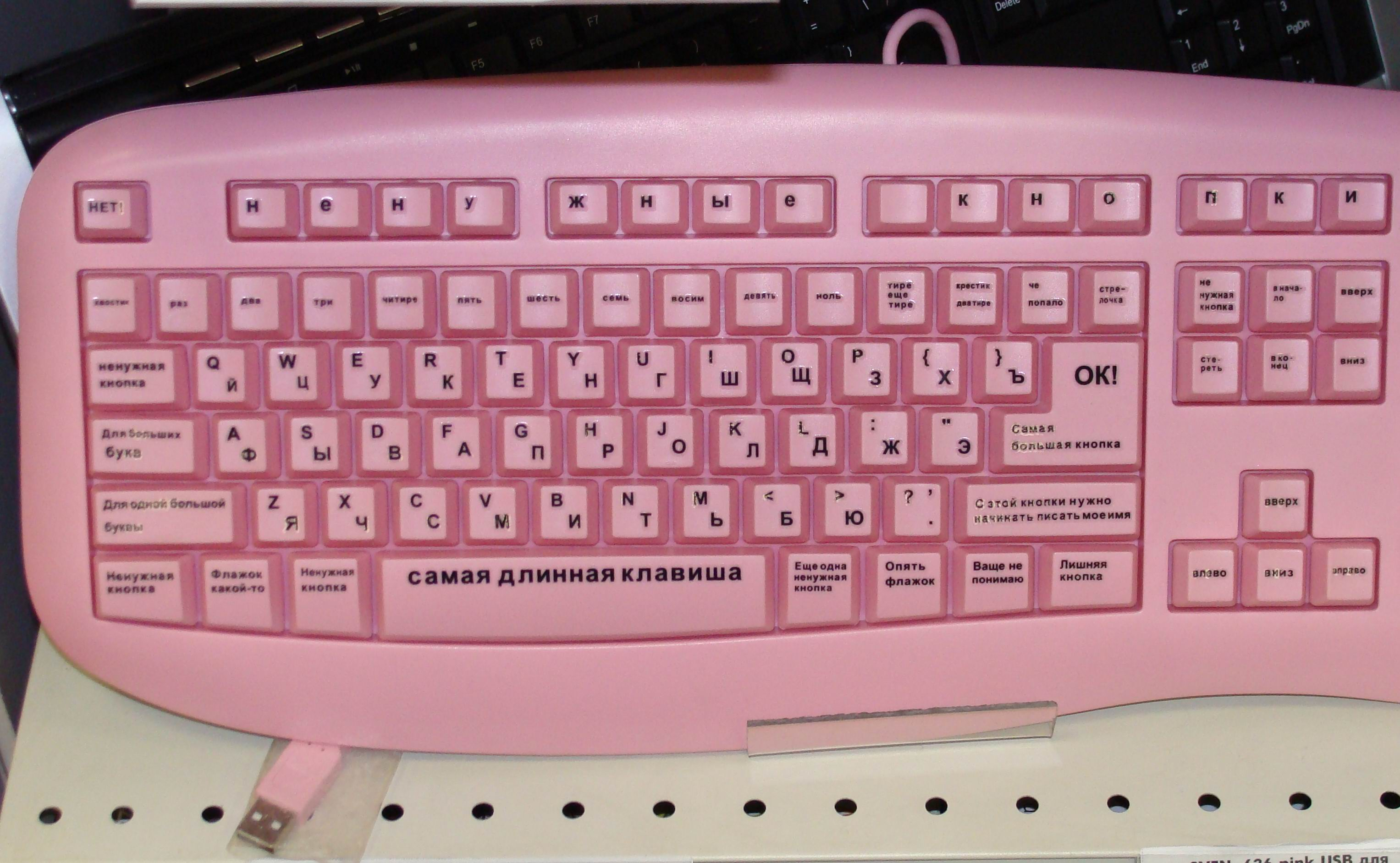 Russian glamour computer keyboard for blondes from blonde jokes.